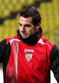 Spanish forward Álvaro Negredo